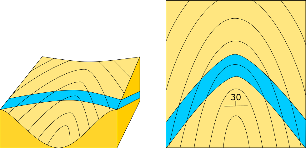 Layers inclined upstream: produce a pattern in which the traces intersect the topographic contour curves and in the valleys form a V whose apex points upstream.